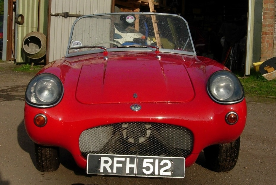 Note the rear-hinged bonnet, soon changed to front hinged to prevent it blowing open at speed.